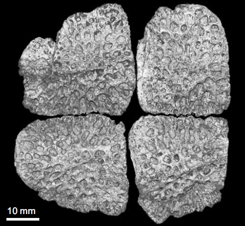 Holotype of Eosuchus lerichei Dollo, 1907. IRSNB R 48, Jeumont, France, late Paleocene, nuchal osteoderms in dorsal view.